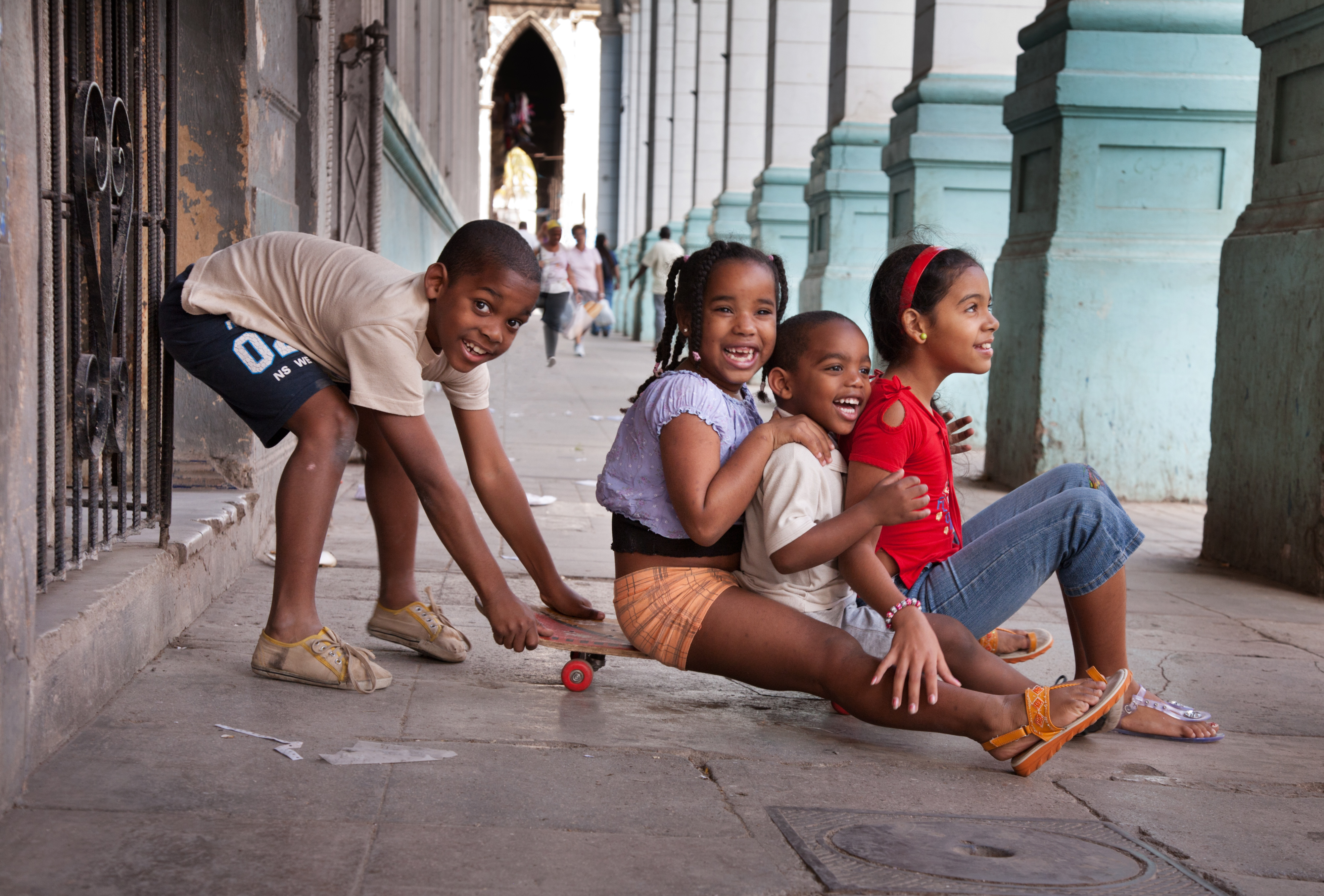 Children having fun with a skateboard by the "Recovas". Havana (La Habana), Cuba